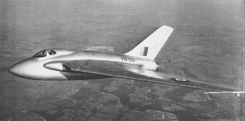 The third prototype of the De Havilland DH. 108 Swallow (serial VW120). VW120 first flew on 24 July 1947 flown by John Cunningham, a wartime nightfighter ace. The following year, on 12 April 1948, it established a new World Air Speed Record of 974.02 km/h (604.98 mph) on a 100 km (62 mi) circuit. Then, on 9 September 1948, it exceeded the speed of sound in a shallow dive from 12,195 m (40,000 ft) to 9,145 m (30,000 ft). In 1949, VW120 scored a third place in the Society of British Aircraft Constructors Challenge Trophy Air Race before being turned over to the UK Ministry of Supply and test flown at Royal Aircraft Establishment at Farnborough. VW 120 was destroyed on 15 February 1950, in a fatal crash near Brickhill, Buckinghamshire, killing its test pilot, Squadron Leader Stuart Muller-Rowland. Accident investigation pointed to a faulty oxygen system that incapacitated the pilot.